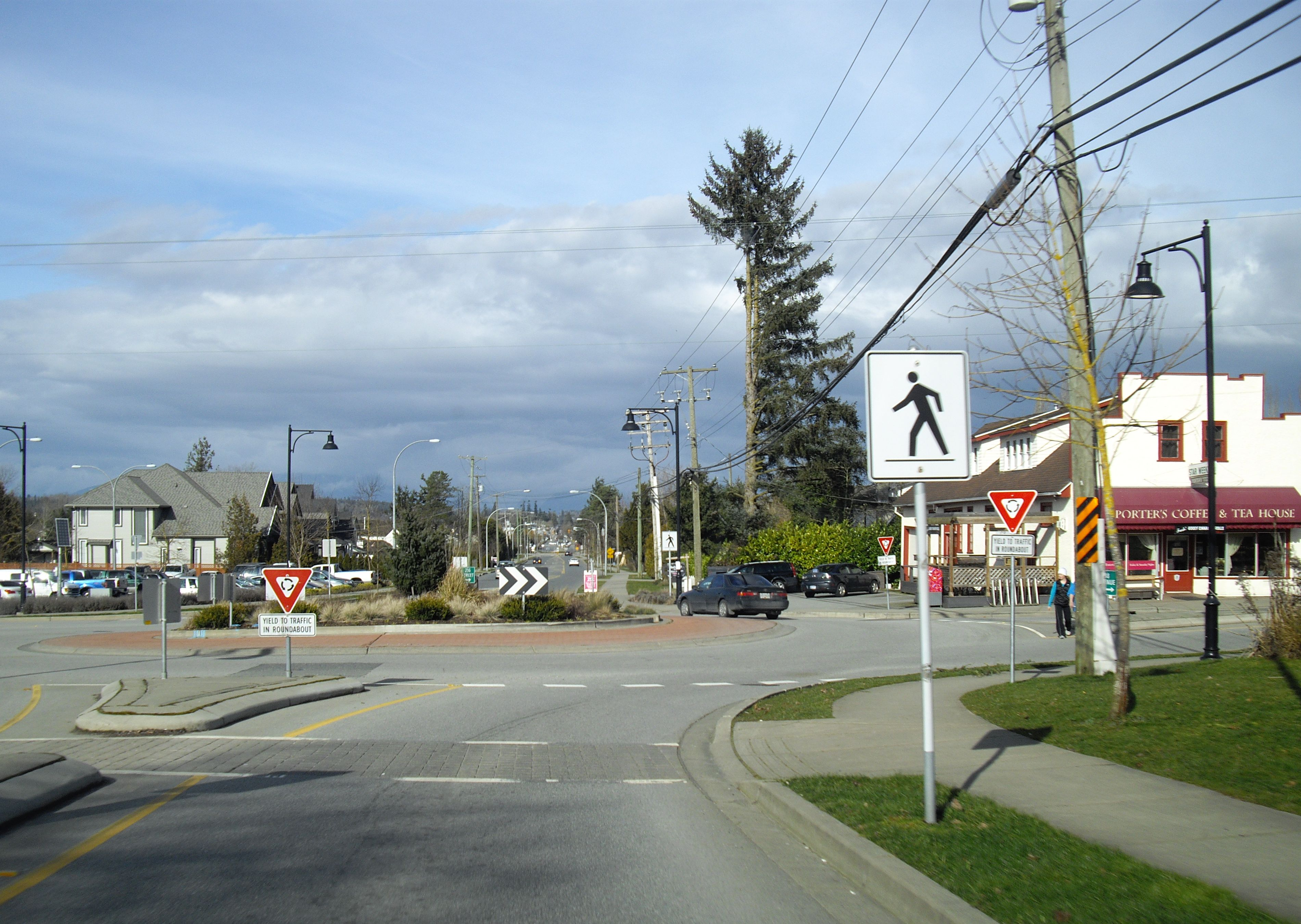 Roundabout on 216th Street and 48th Avenue in Murrayville, Langley, BC.